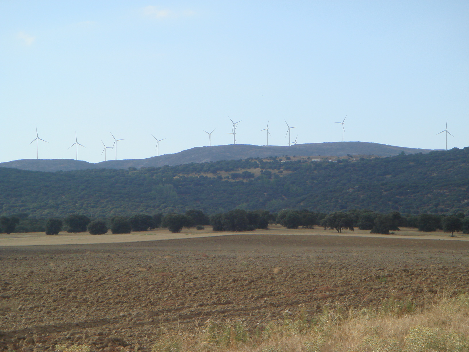 Eolic Park at Cerro Gorría from Amblés valley, Spain. Ávila province.